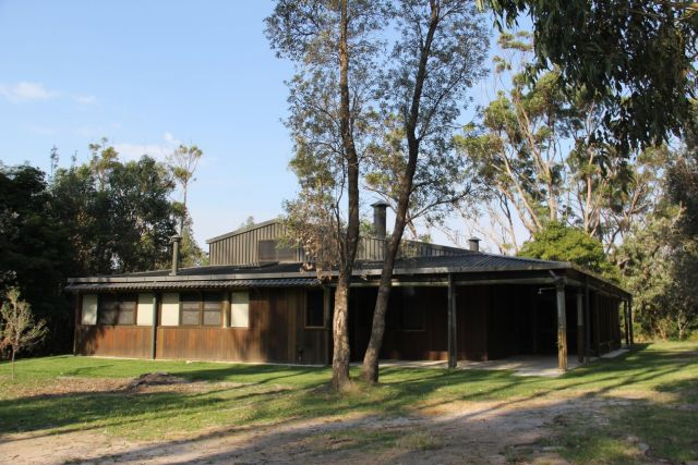 Penders: Facade of Myer House, designed by Roy Grounds early 1960s.